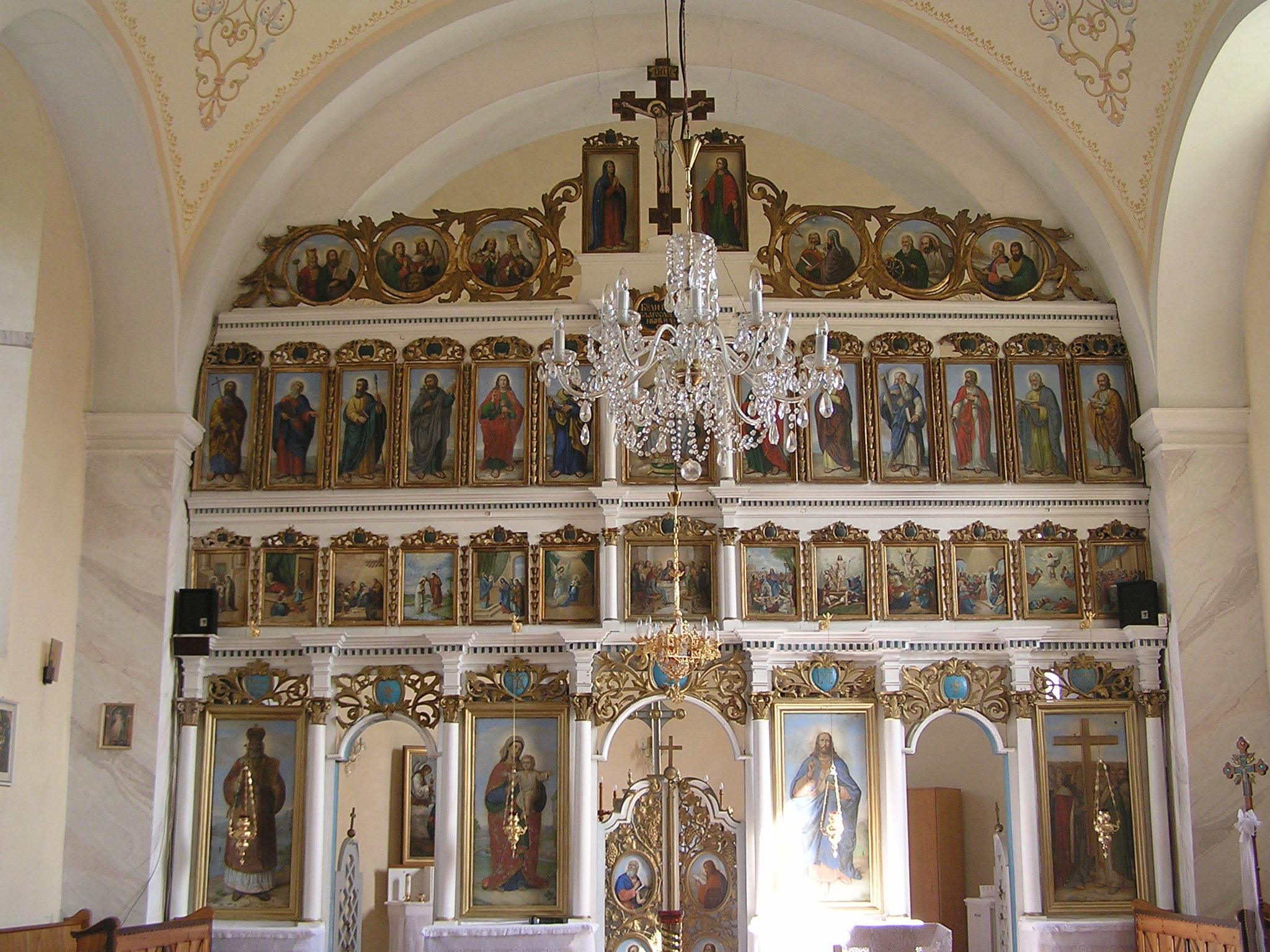 iconostasis